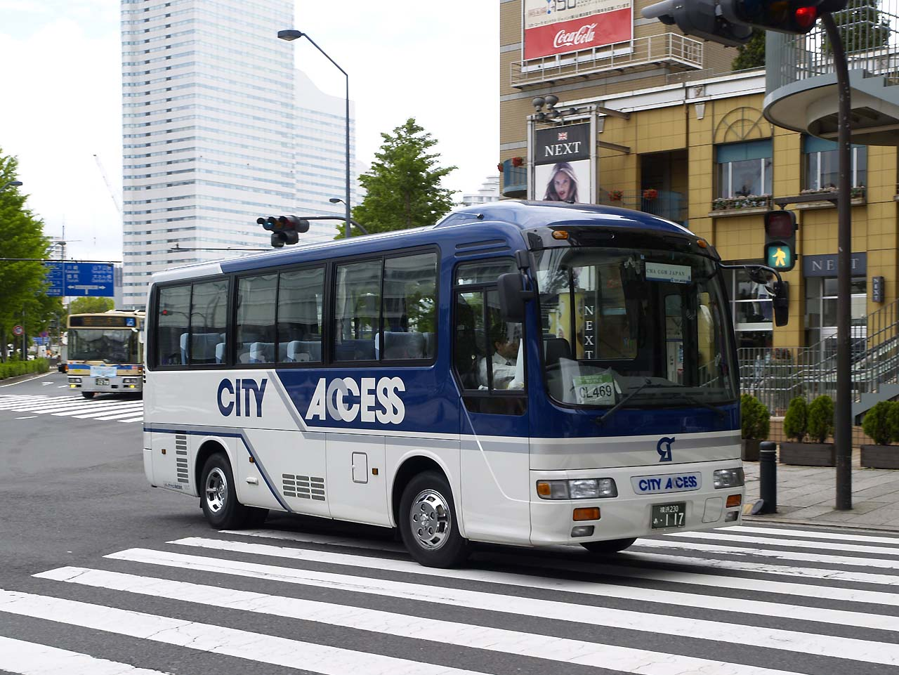 Fleet of City Access (Bus company of Fujiki Group). License plate: KNY230 A-117 Place: neighbour of Sakuragicho station, Naka ward, Kanagawa Japan